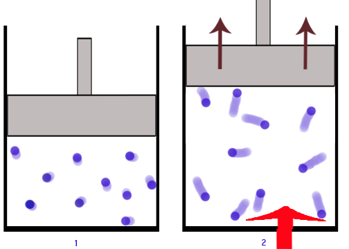 Simple diagram of a piston in a cylinder with gas heating up and increasing the pressure to move the piston up. contains two side-by-side diagrams. thermodynamic process path